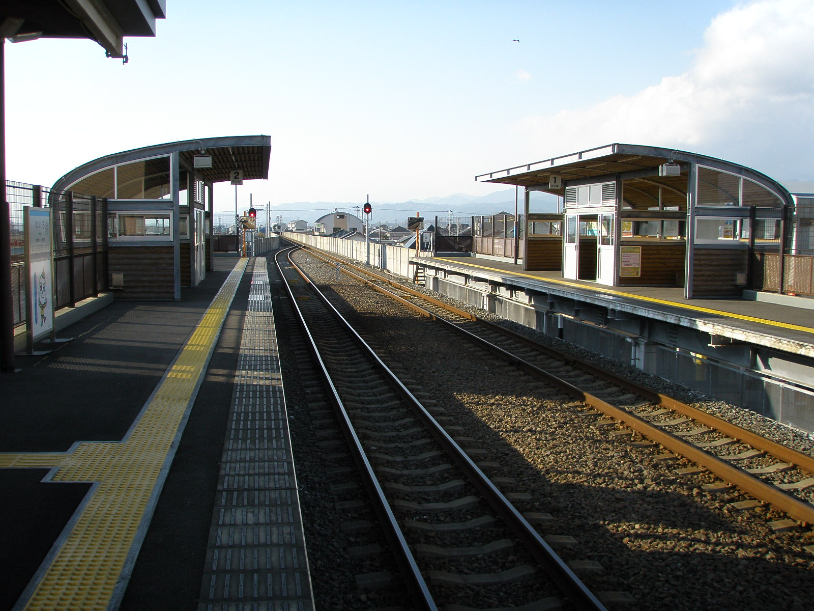 Tosa Kuroshio Railway Gomen-Nahari Line（Asa Line） Noichi Station Platform